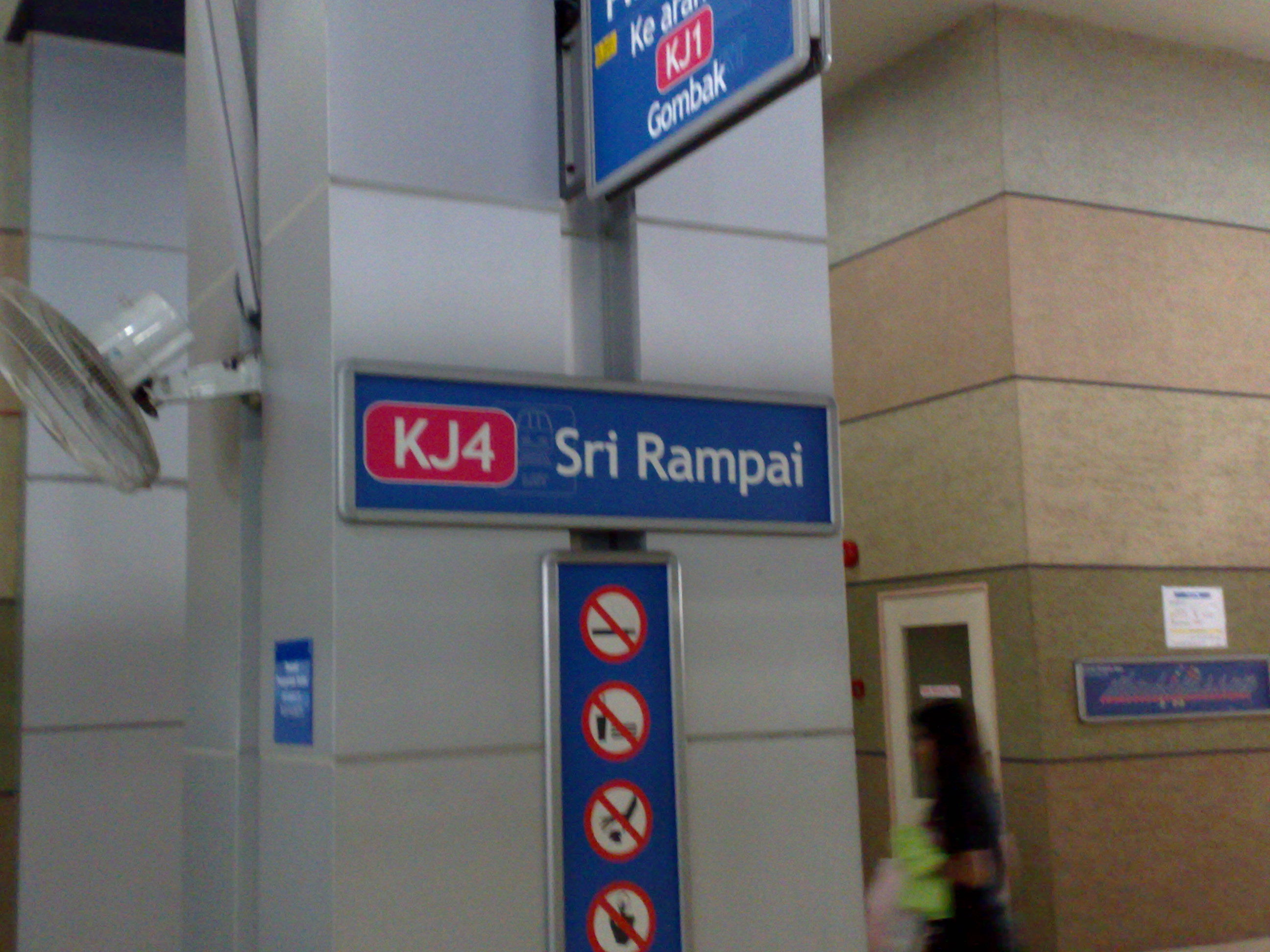 Sri Rampai LRT